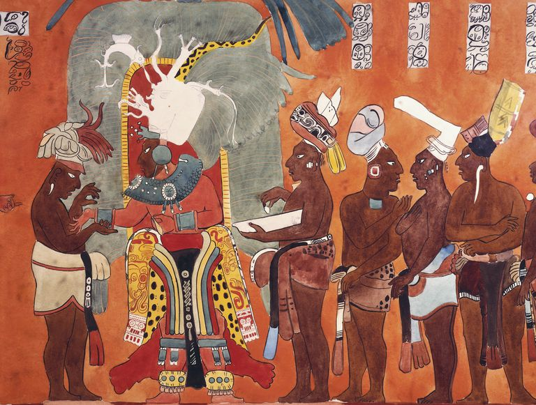 Image from Bonampak mural, of high status man being painted red